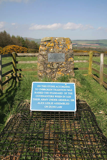 The Covenanter's Stone on Duns Law The stone within a timber fence enclosure and protected by a metal grid, is where a Scottish army under General Leslie reputedly raised the standard of the National Covenant in 1639. The cairn behind has a plaque which is inscribed:- THIS CAIRN COMMEMORATES THE ENCAMPMENT HERE OF THE COVENANTERS UNDER GENERAL SIR ALEXANDER LESLIE 1639